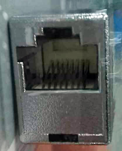 8 pin RJ45 (registered jack 45) female connector, which is often erroneously confused with commonly used 8P8C connectors, which are widely used in ethernet connections.